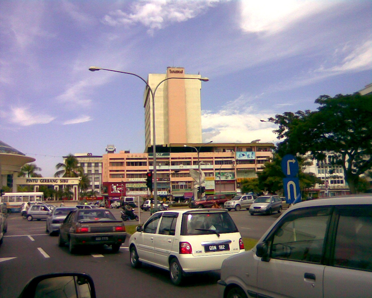 Sibu town centre along Jalan Pedada, near the Sibu gateway.